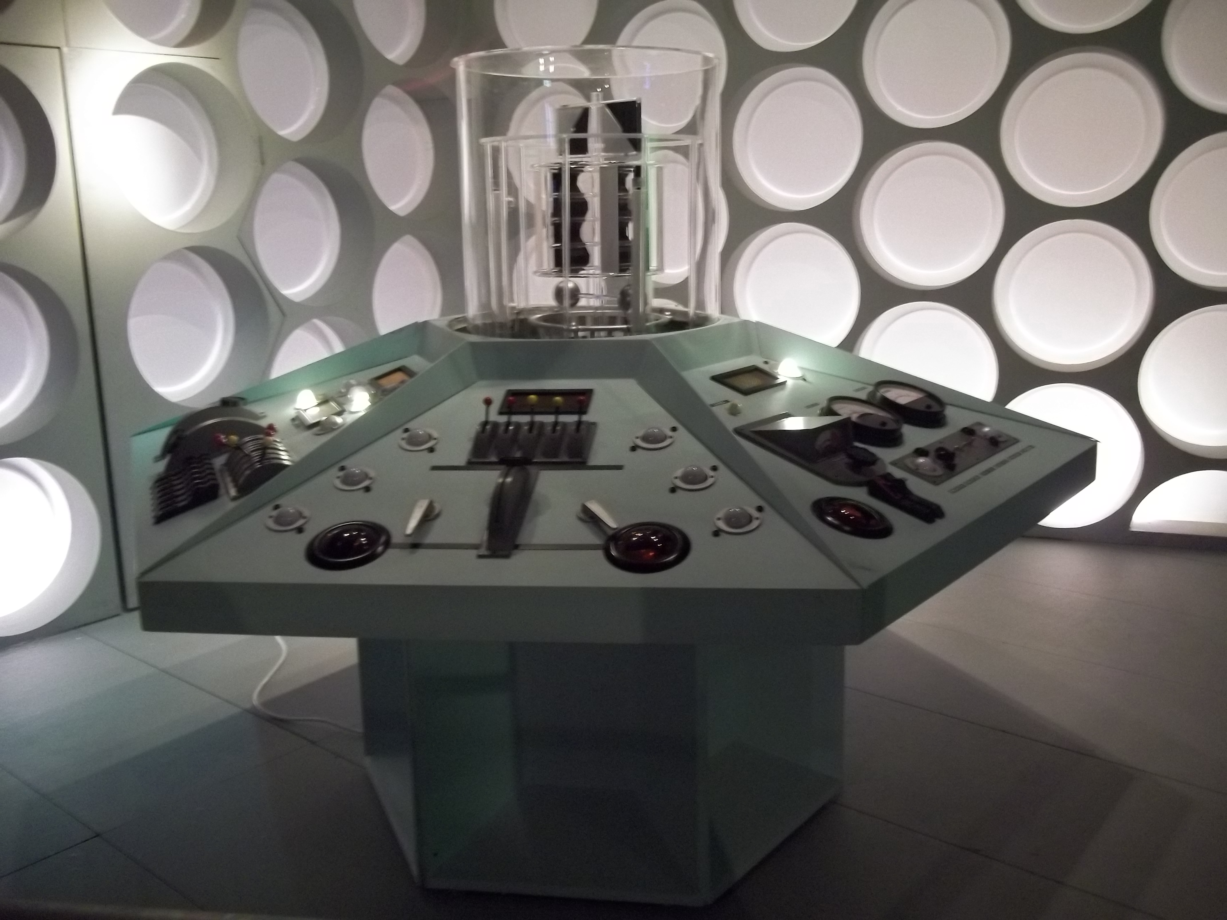 Original TARDIS Interior Doctor Who Experience